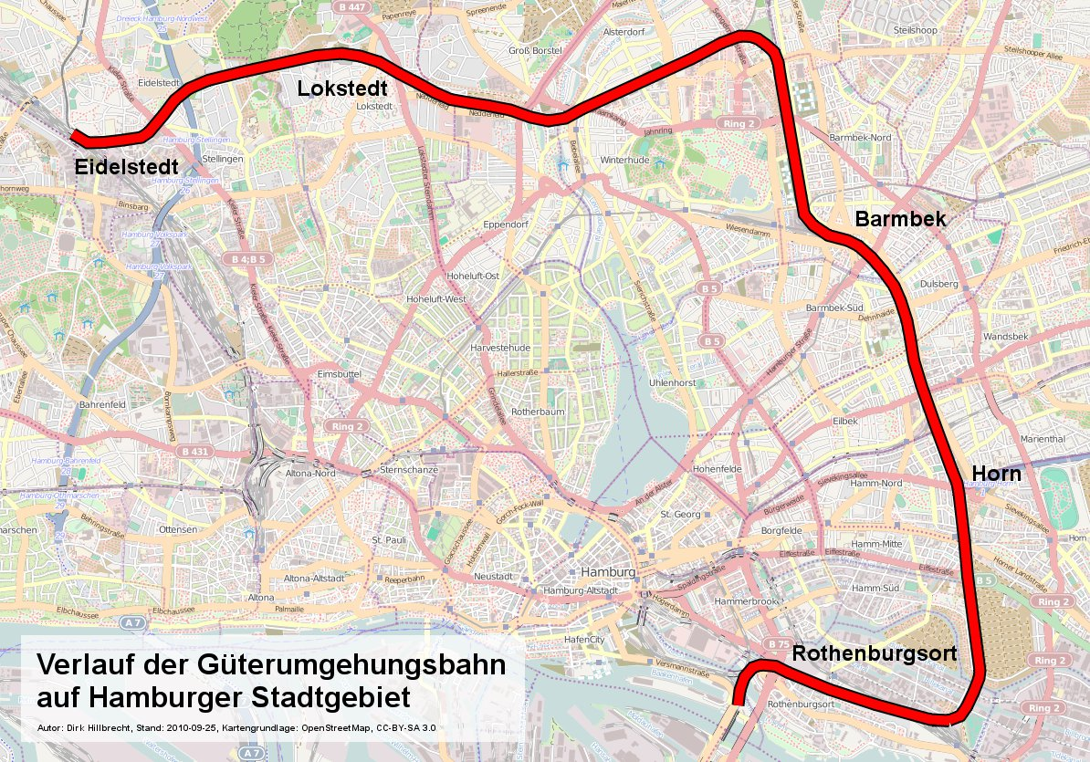 Map of Hamburg freight bypass railroad in the city area between Eidelstedt and Veddel